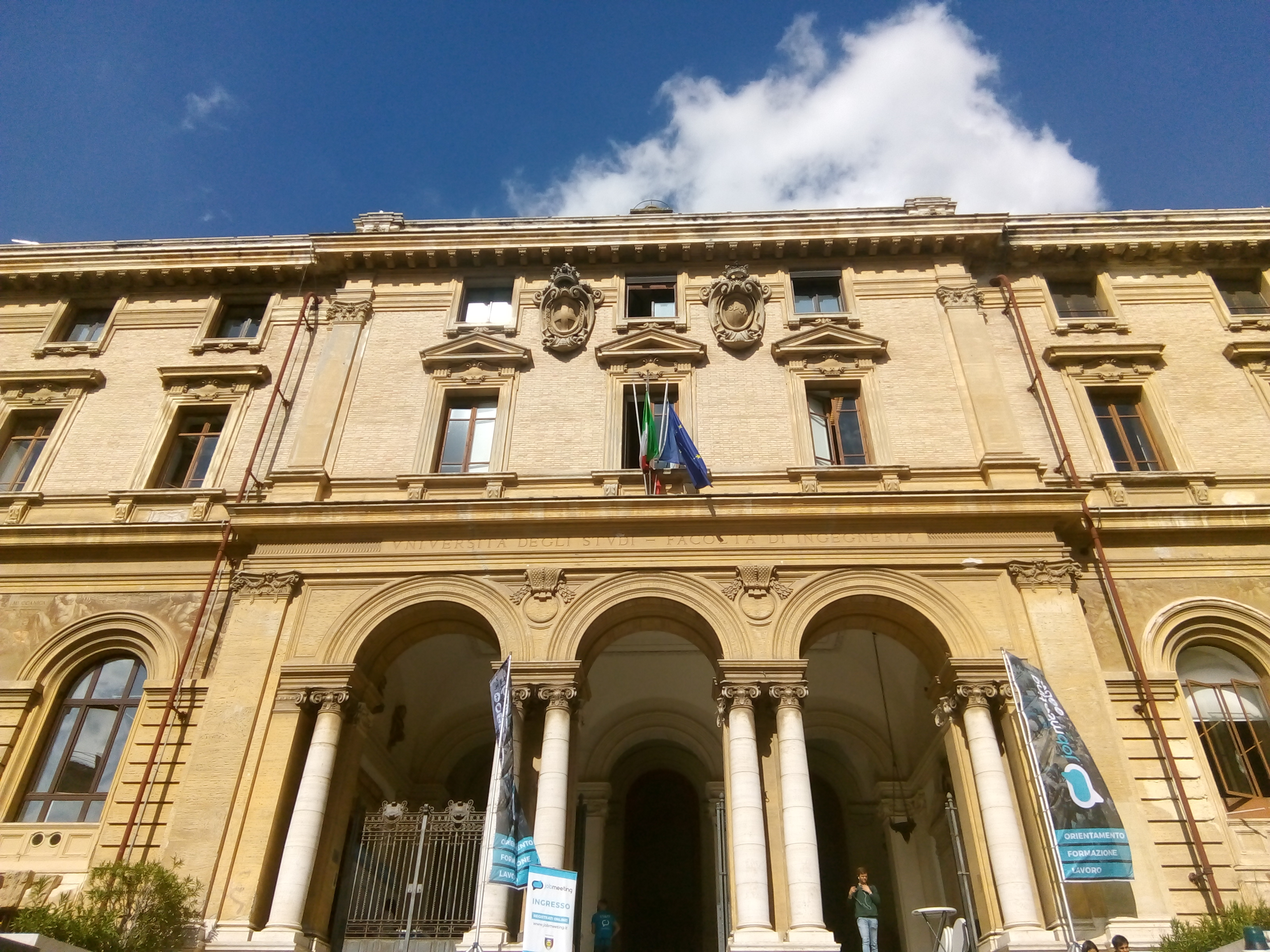 Building in Rome